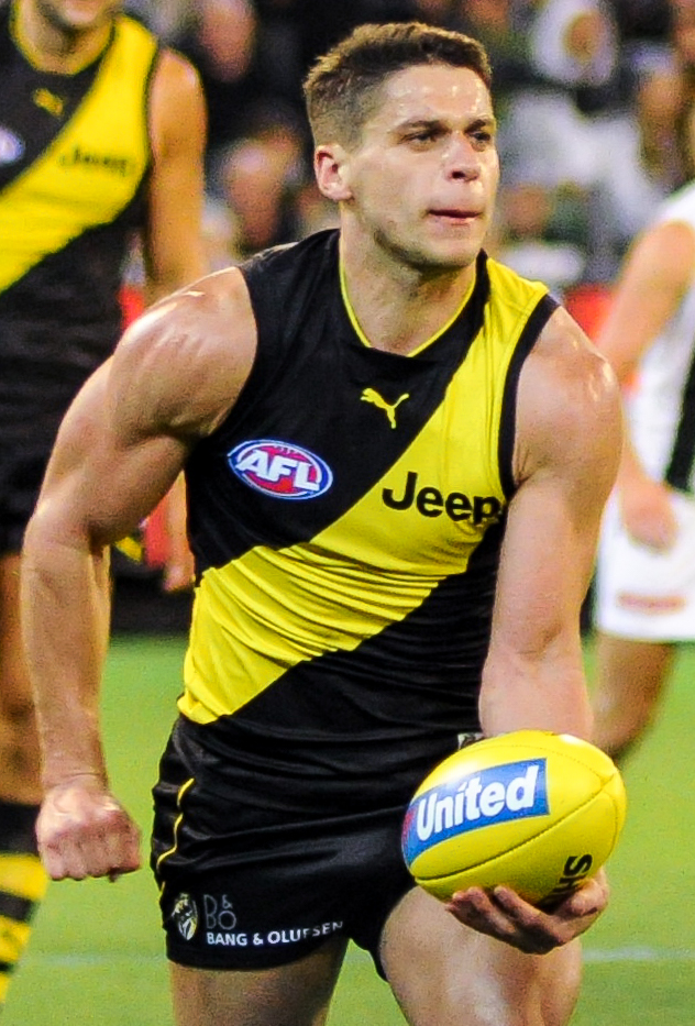 Dion Prestia handballing during the AFL round two match between Richmond and Collingwood on 30 March 2017 at the Melbourne Cricket Ground in Melbourne, Victoria.